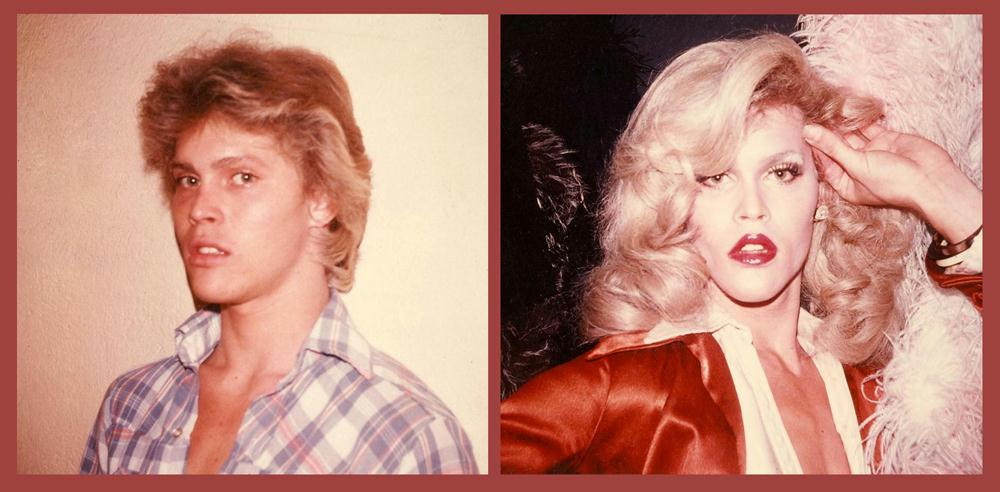 Logan Carter and "Roxanne Russell", as released by image creator Lars Jacob ProdPlace: Keith's Cruise Room, 813 S.E. 1st Avenue, Hallandale, Florida